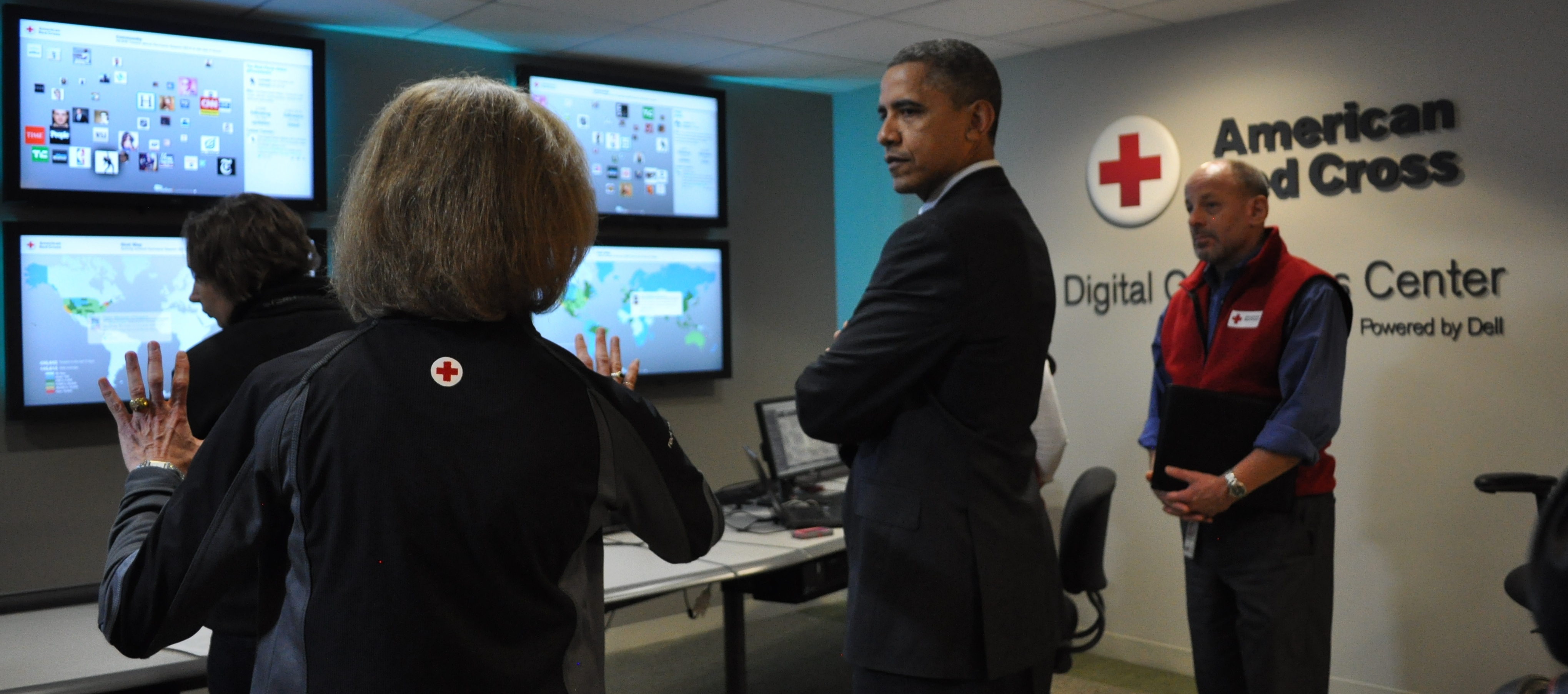 President Obama visits the American Red Cross Digital Command Center following Hurricane Sandy